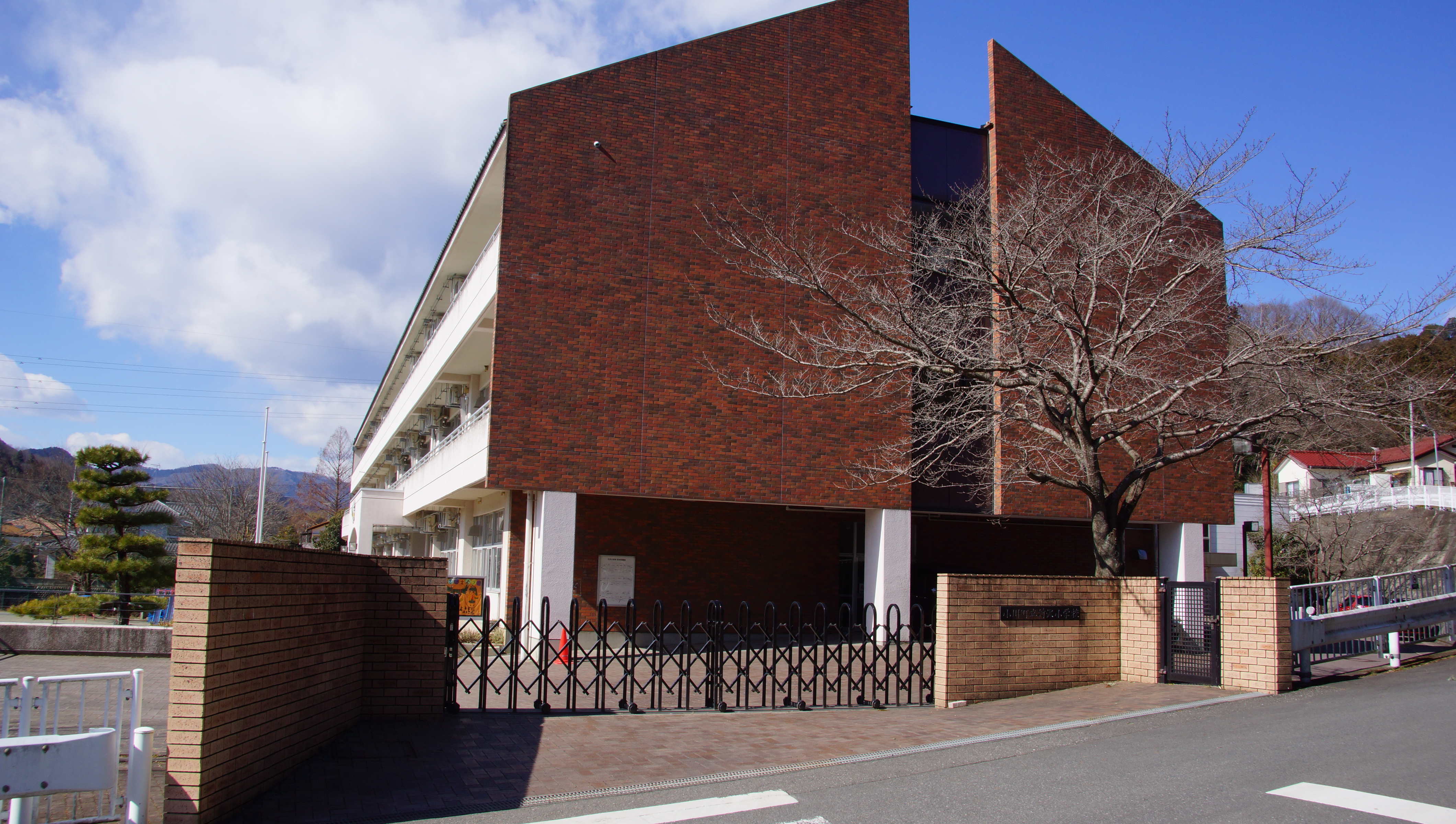 Takezawa Elementary School in Ogawa, Saitama Prefecture, Japan